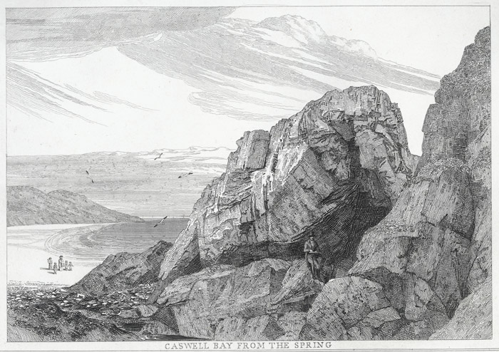 A view of Caswell bay with a man sitting in front of rocks sketching.